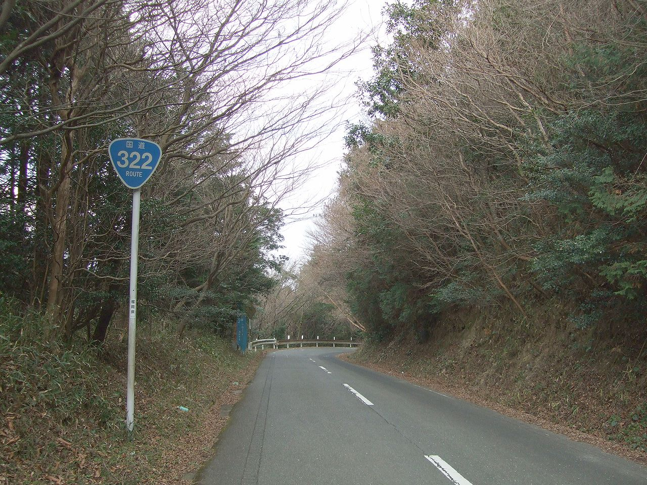 National road No.322 at Hatcho pass, Asakura City, Fukuoka, Japan